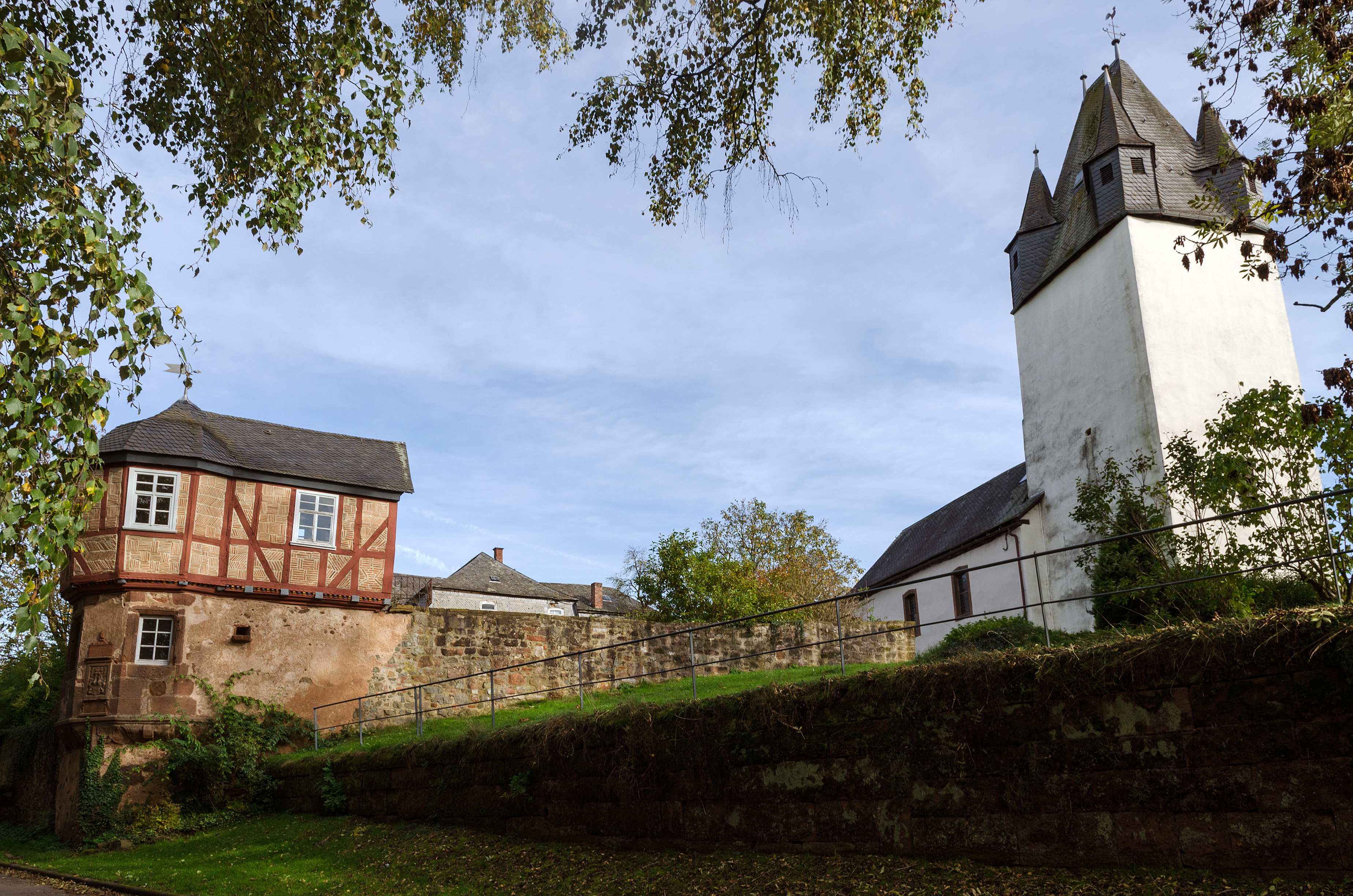 "Rapunzel tower" und protestant church in Amönau, Wetter, Hesse